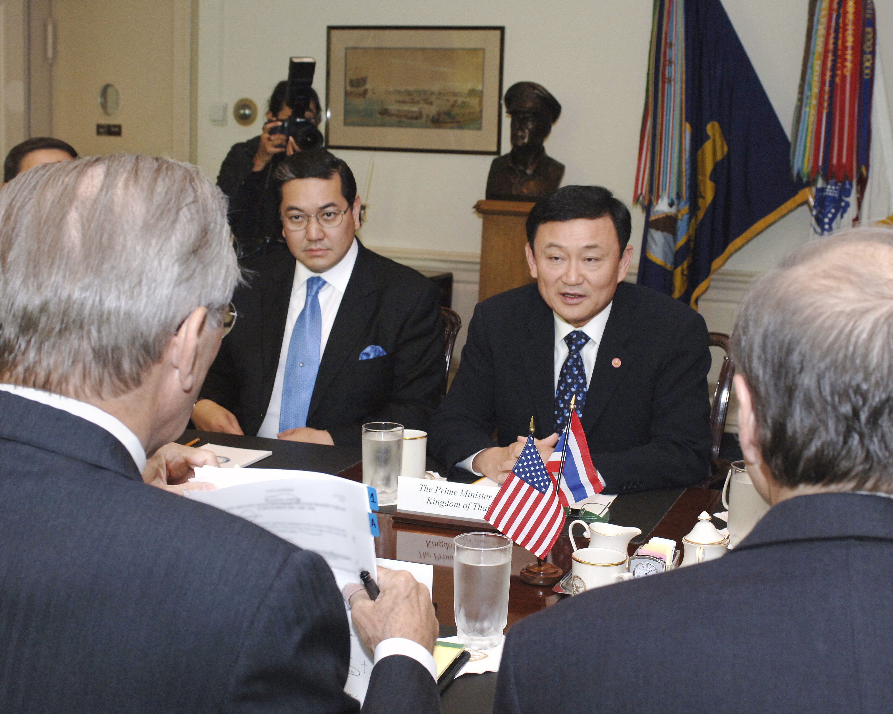 Thailand's Prime Minister Thaksin Shinawatra (right) meets with Secretary of Defense Donald Rumsfeld (foreground left) in the Pentagon. Thaksin and Rumsfeld are meeting to discuss issues of mutual interest. Prime Minister Thaksin is accompanied by Deputy Prime Minister Surakiart Sathirathai (left).